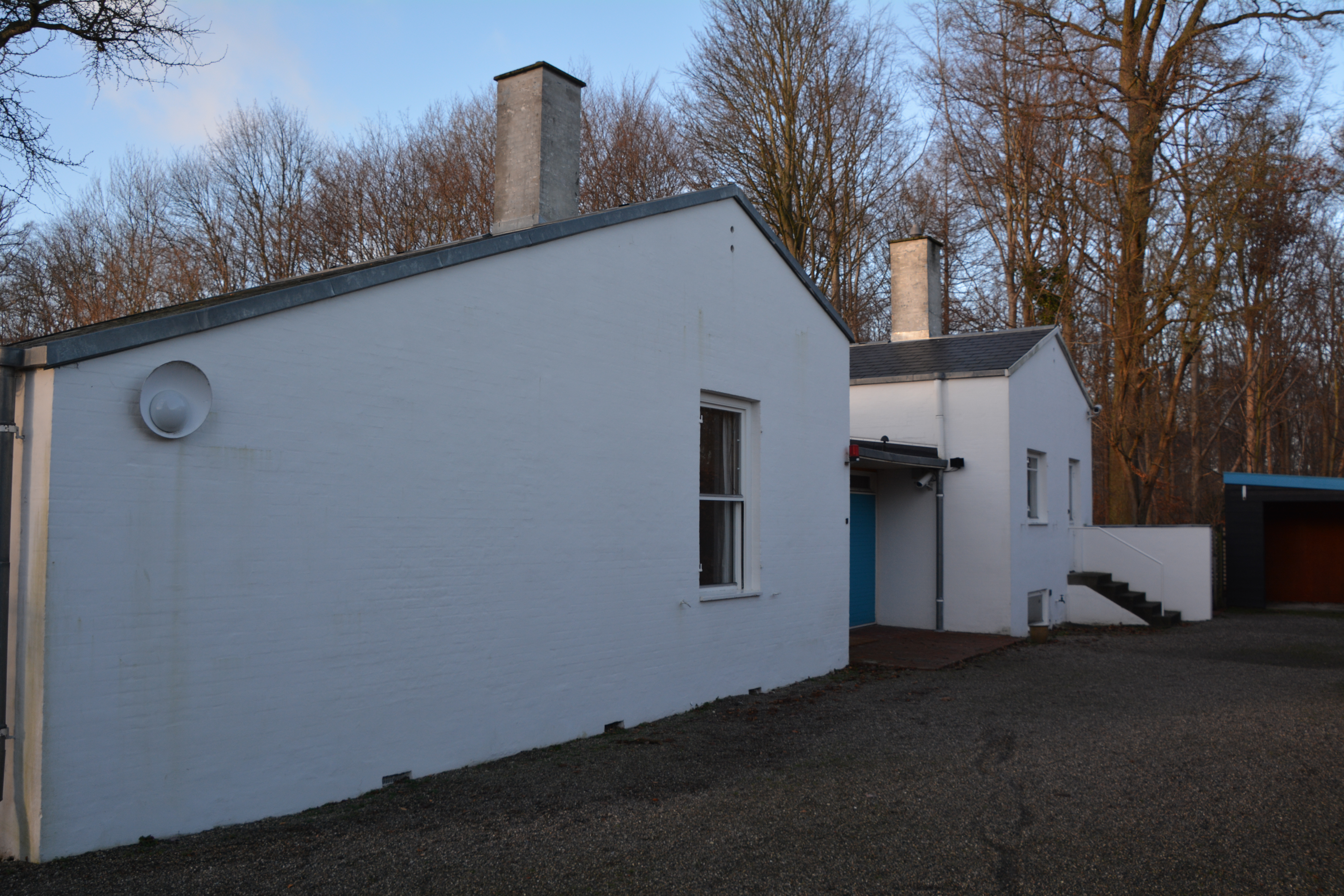 Finn Juhls hus, entrésidan